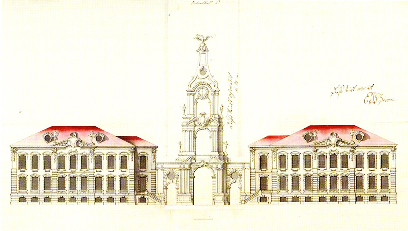 Francesco Bartolomeo Rastrelli. The draft of the northern facade of the Rundāle Palace in Pilsrundāle, Latvia. 1736